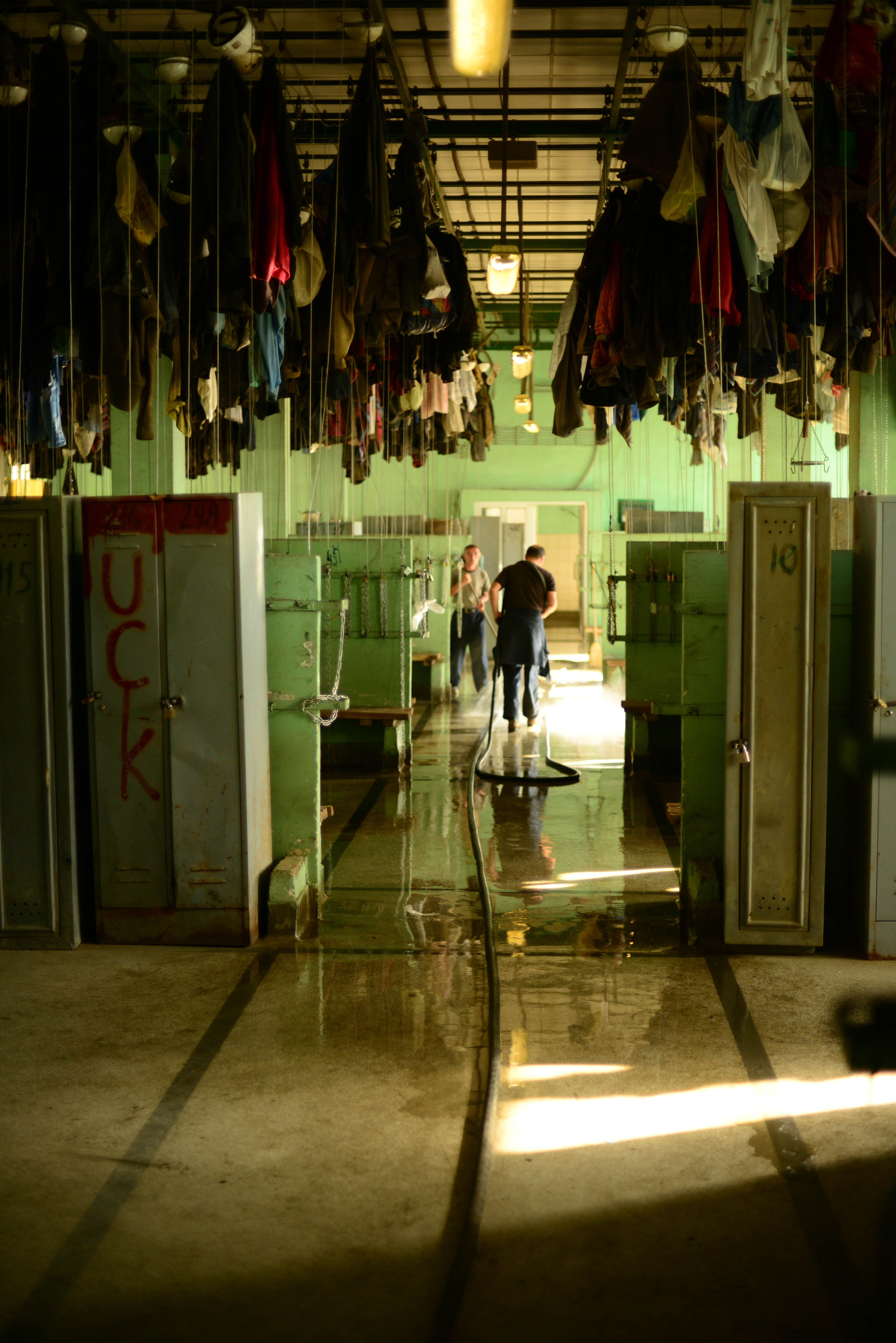 The Trepca Mine